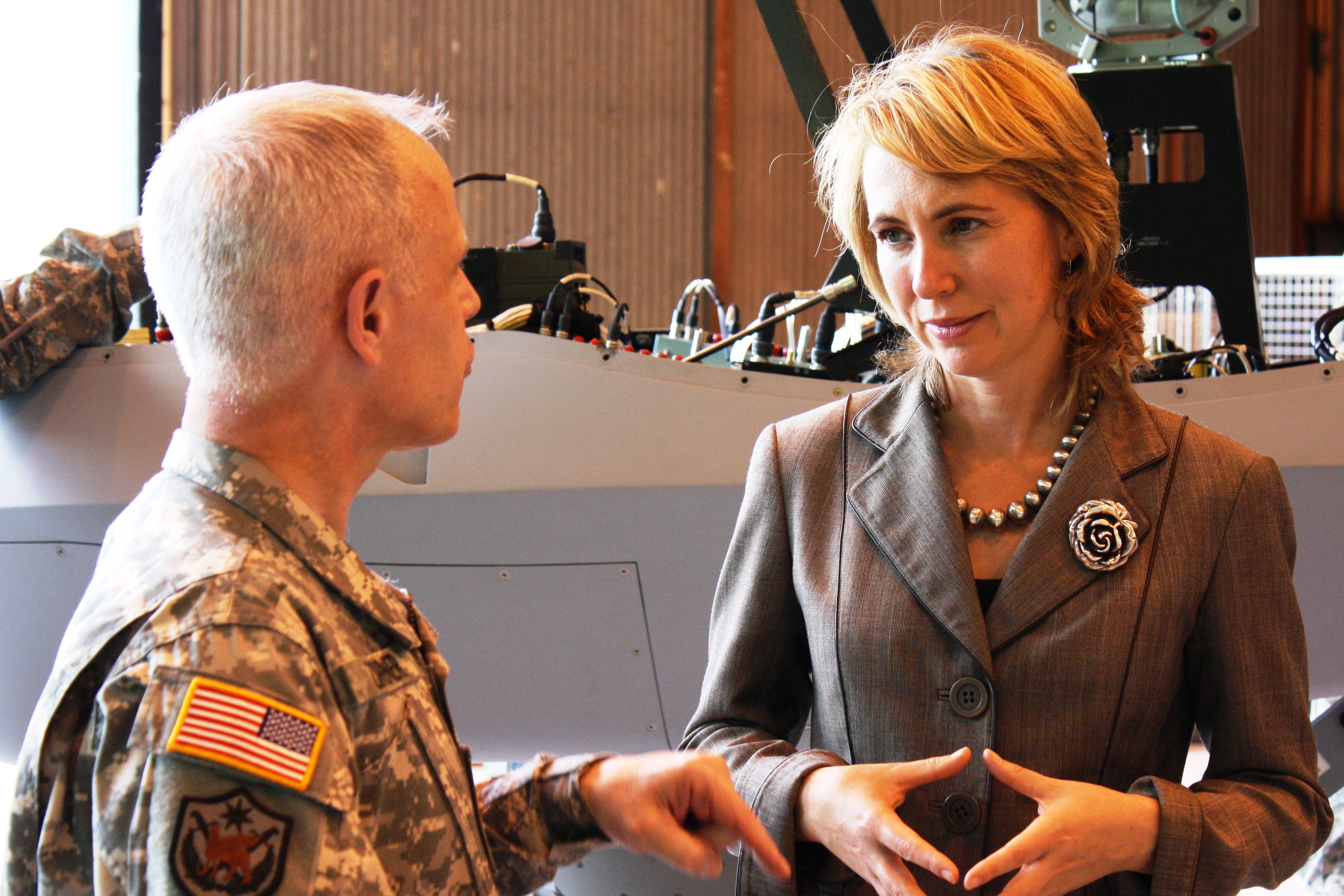 United States Representative Gabrielle Giffords speaking with a military officer.